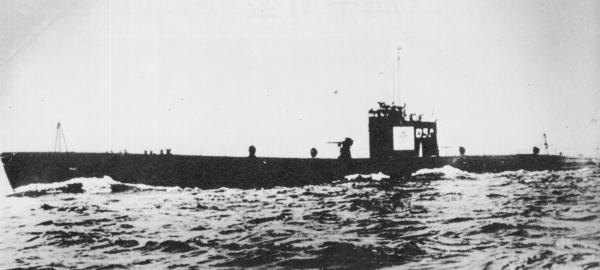 Japanese Submarine RO-50(CHU-class or KAICHU-class type-VII).